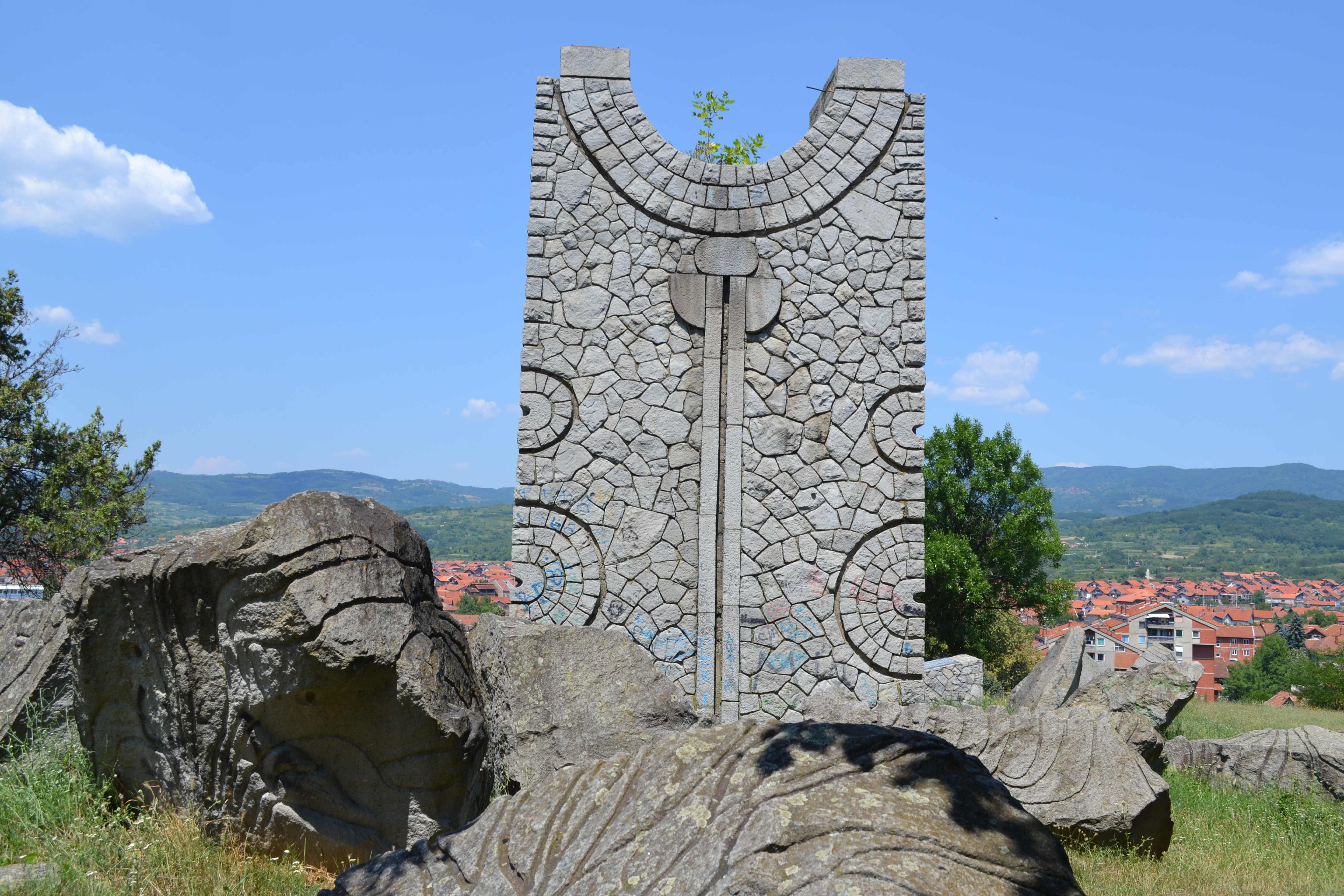 Споменик револуције у Власотинцу